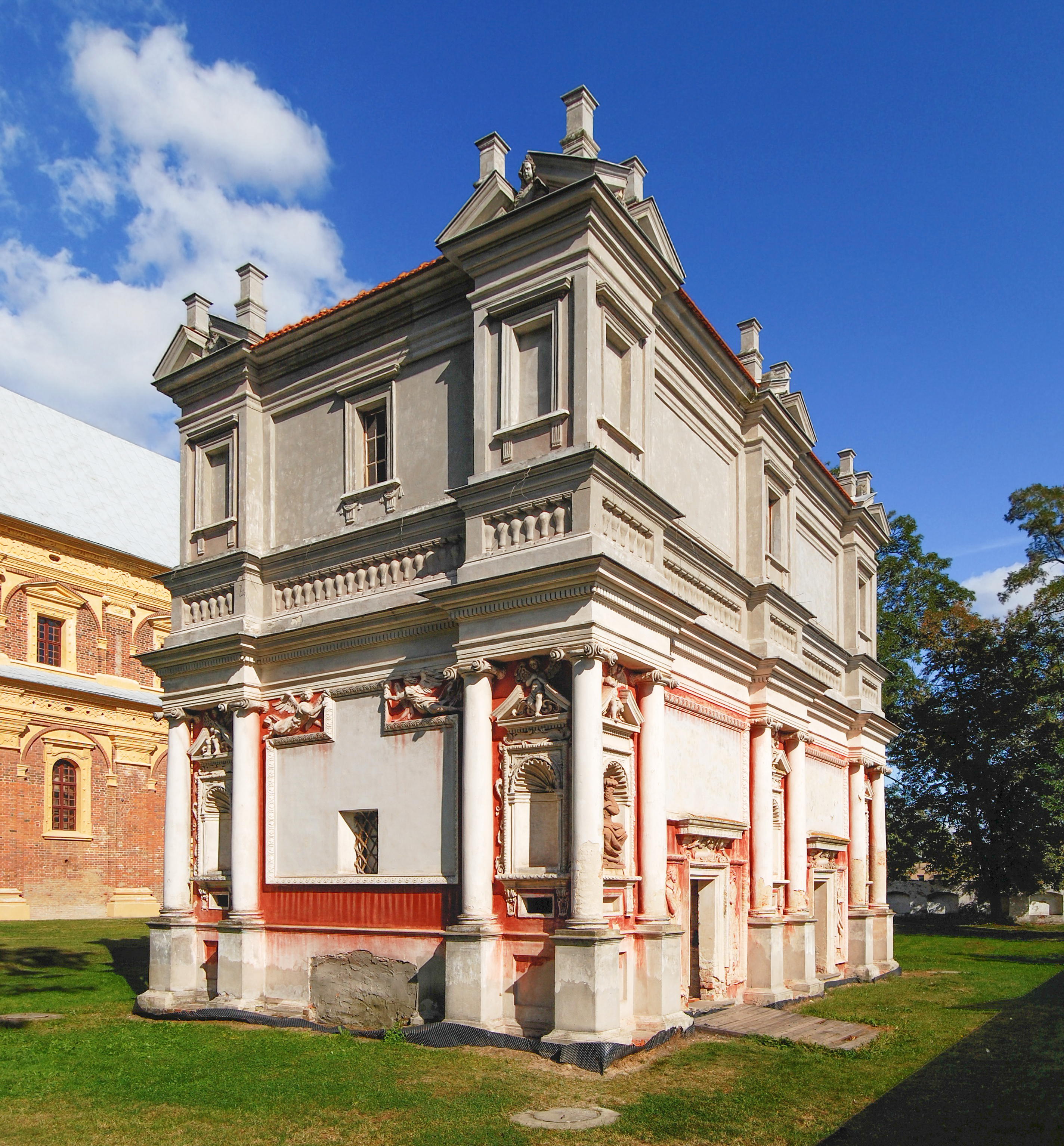 Chapell inspired by the Santa Casa from Basilica della Santa Casa, Gołąb, Puławy County, Lublin Voivodeship, Poland.